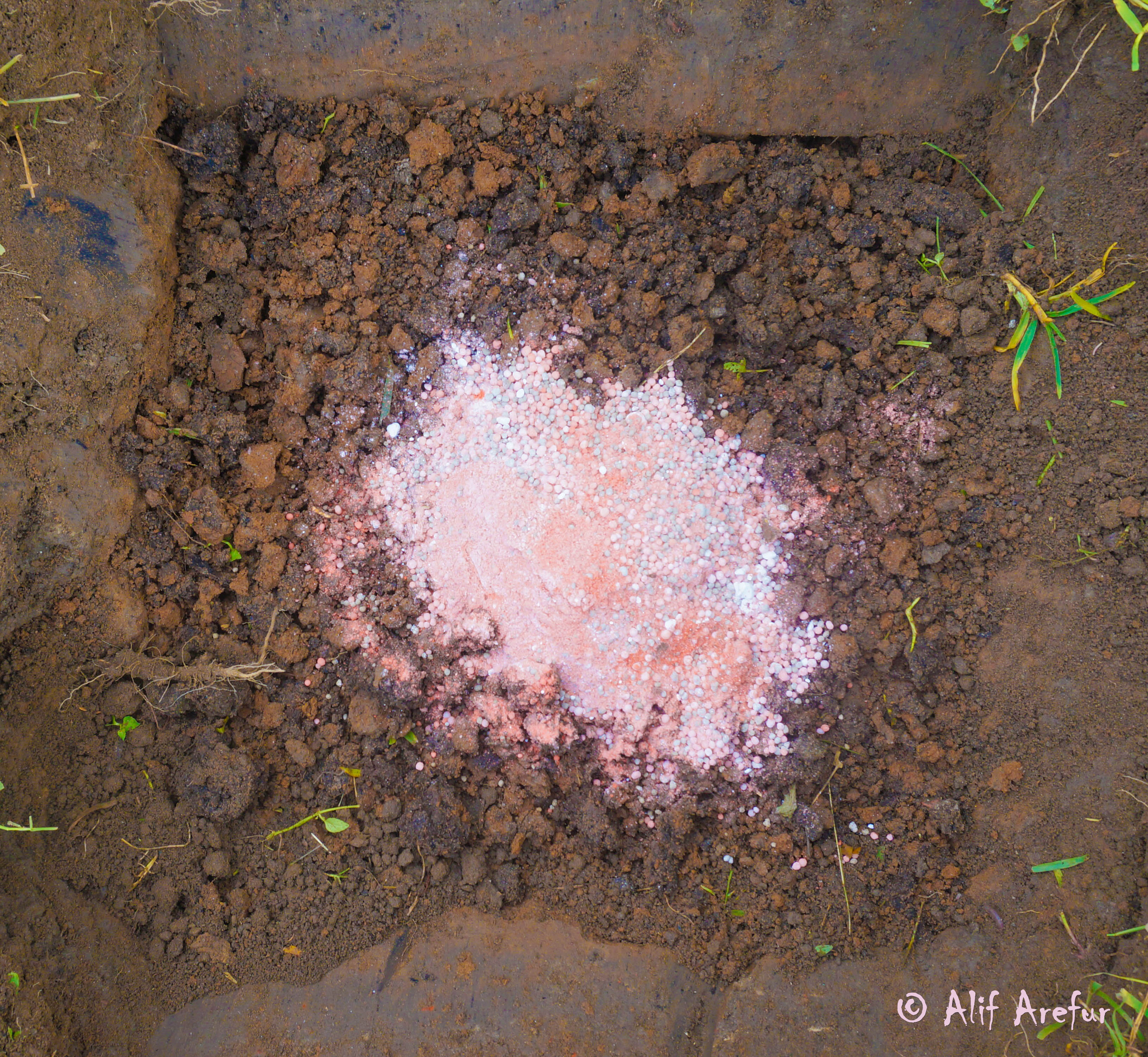 Pit for avocado seedling at Malik's Farm